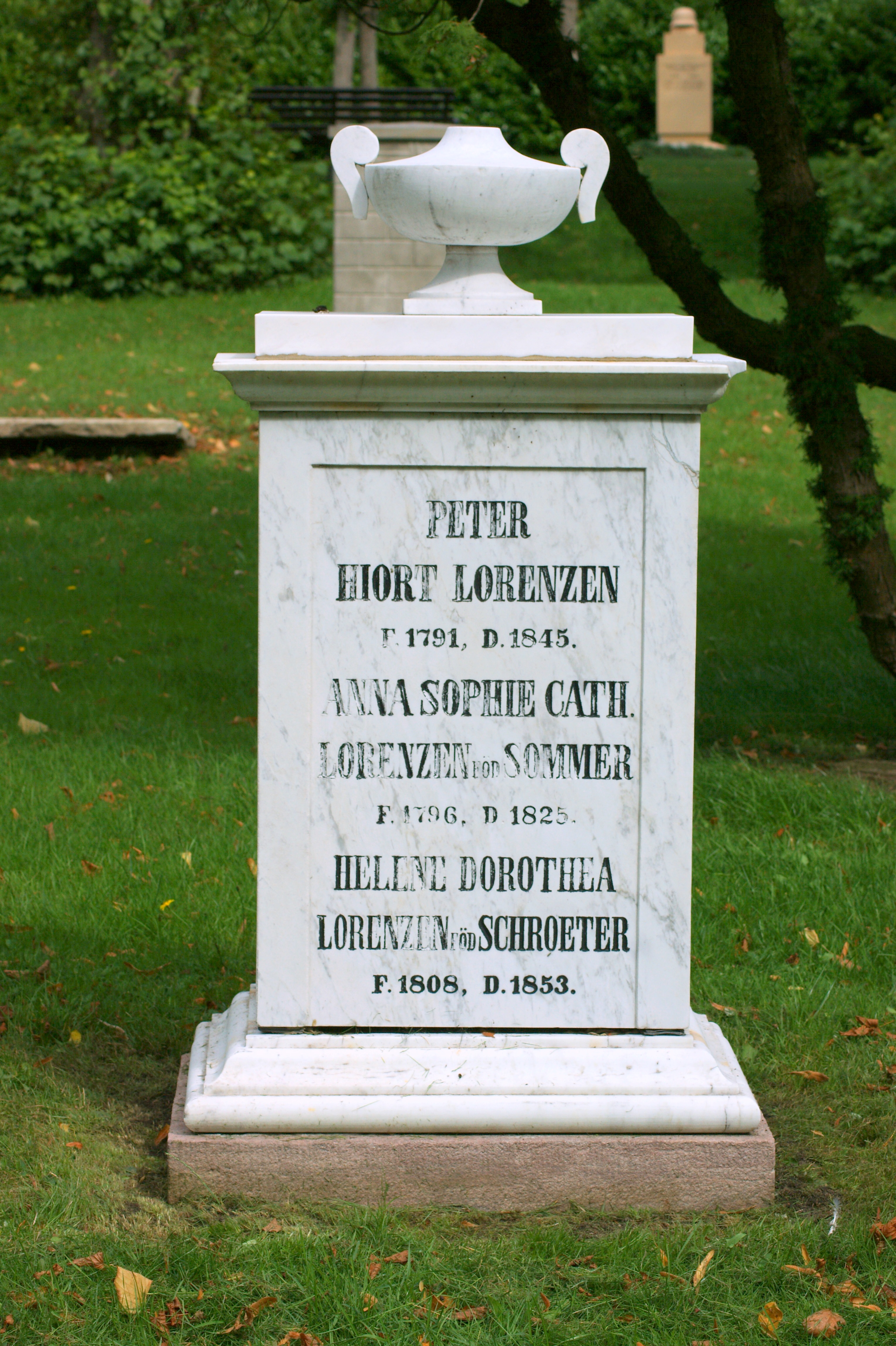 Haderslev Old Cloyster Churchyard Denmark